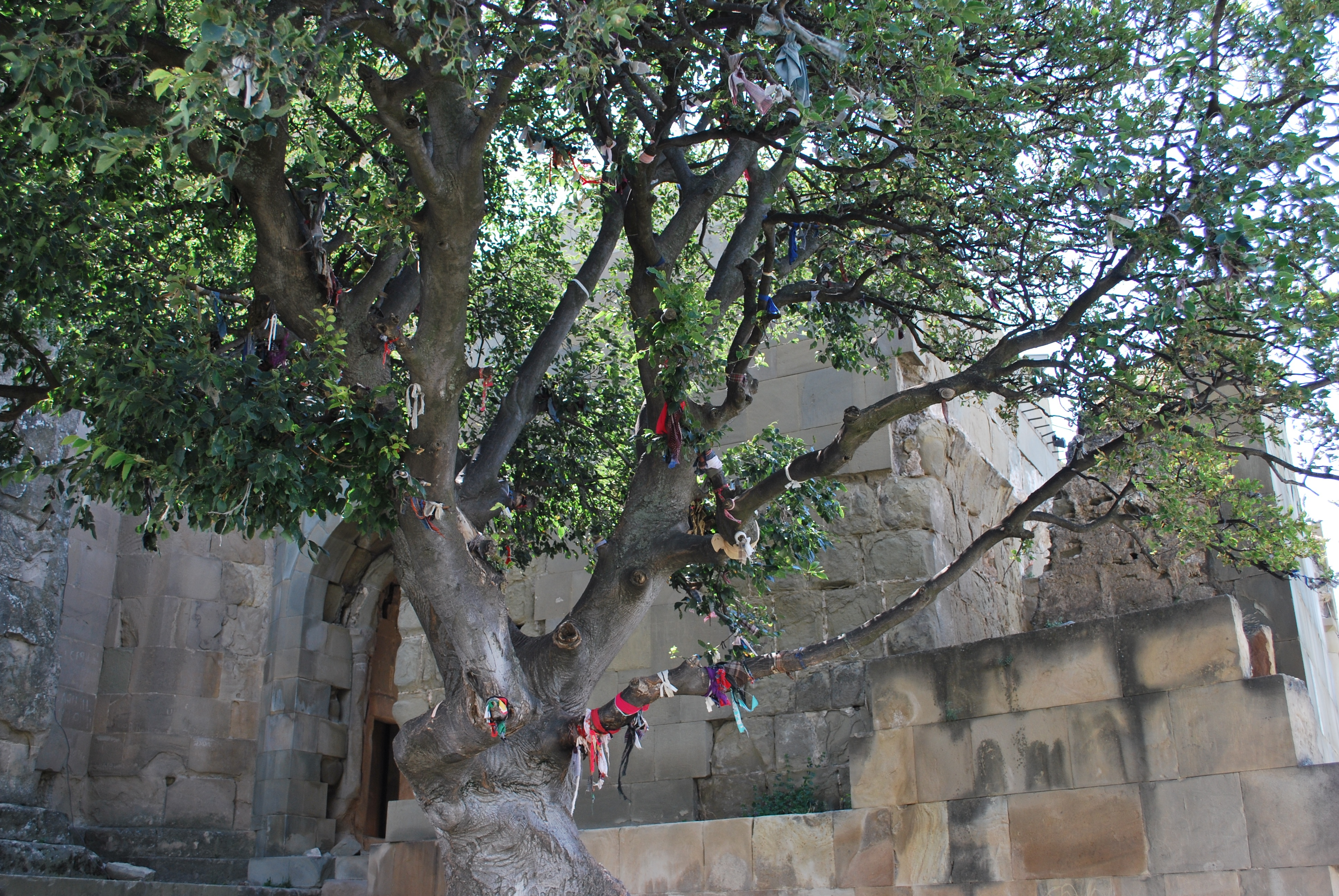 Good Luck Tree at Jvari